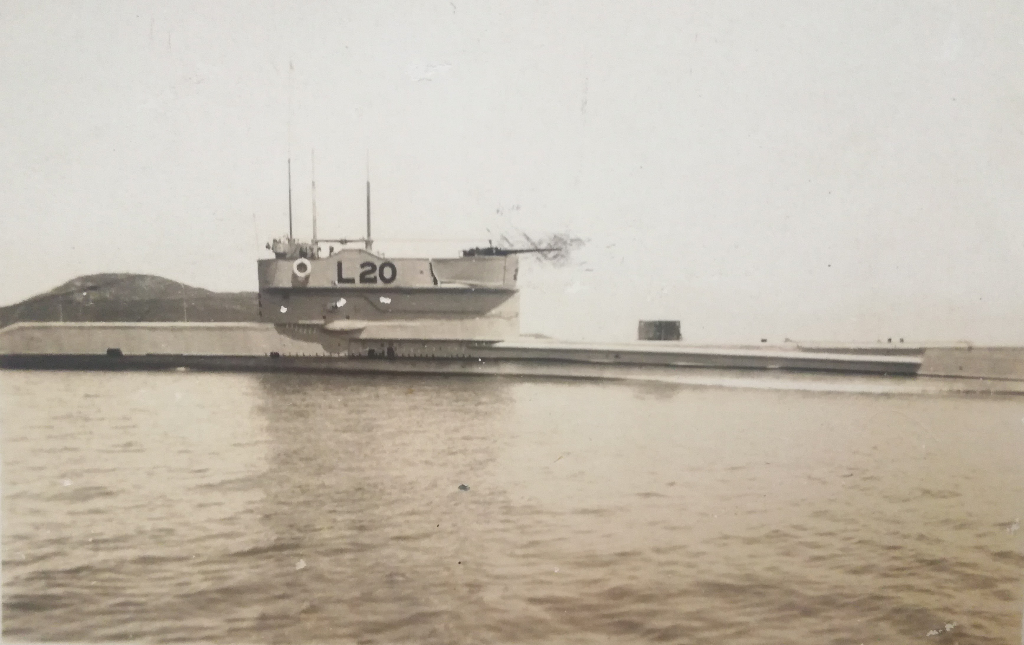 L20 anchored near the mouth of the Yangtze River, c. 1929.